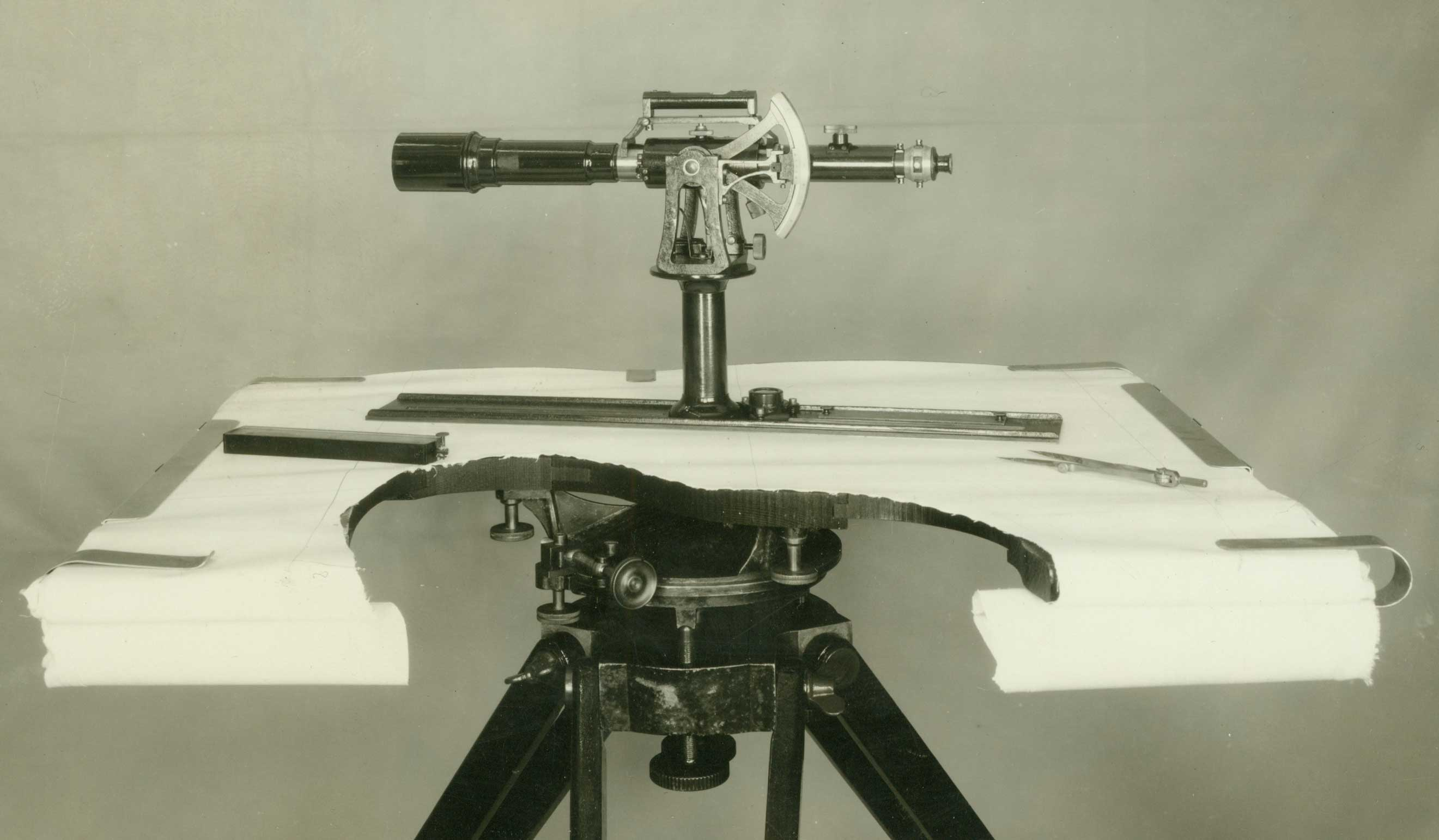 Cutaway view of a plane table with alidade